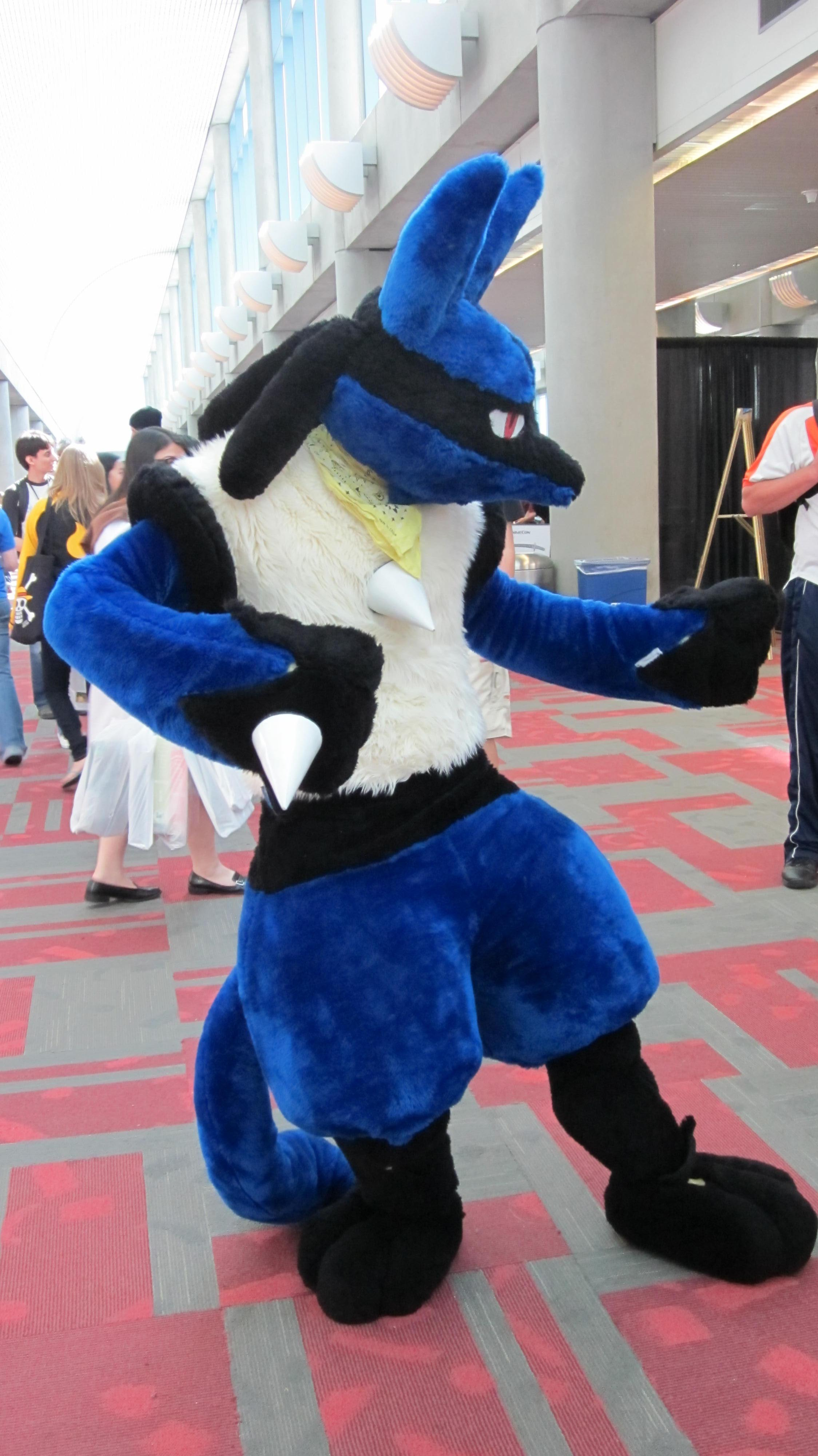 A cosplayer portraying Lucario from Pokémon at FanimeCon 2010 in San Jose, California.